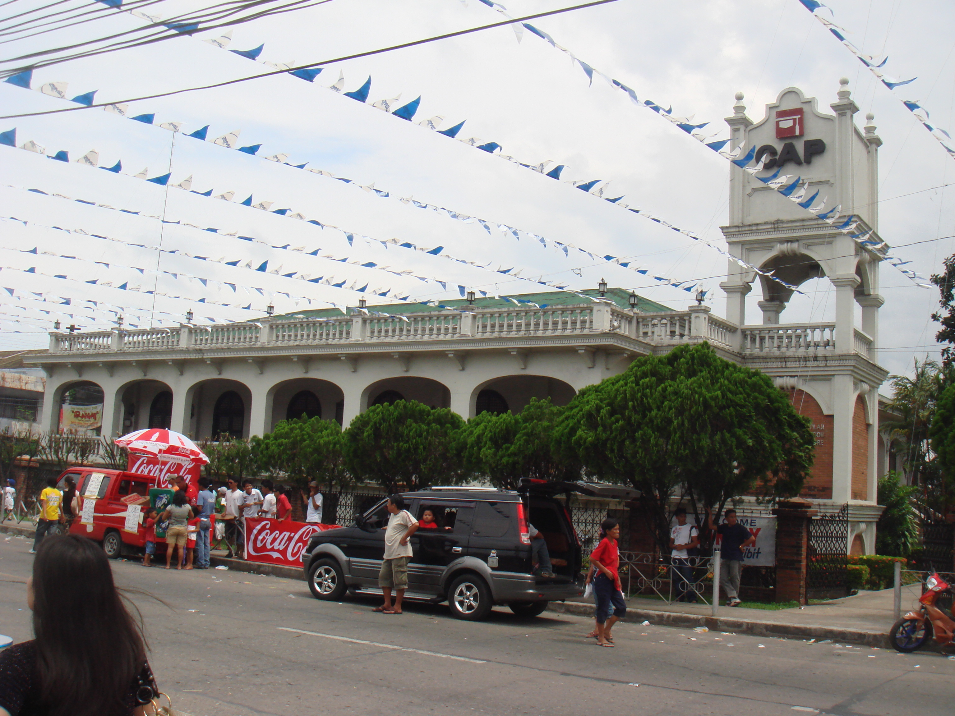 Price Mansion, Tacloban City.